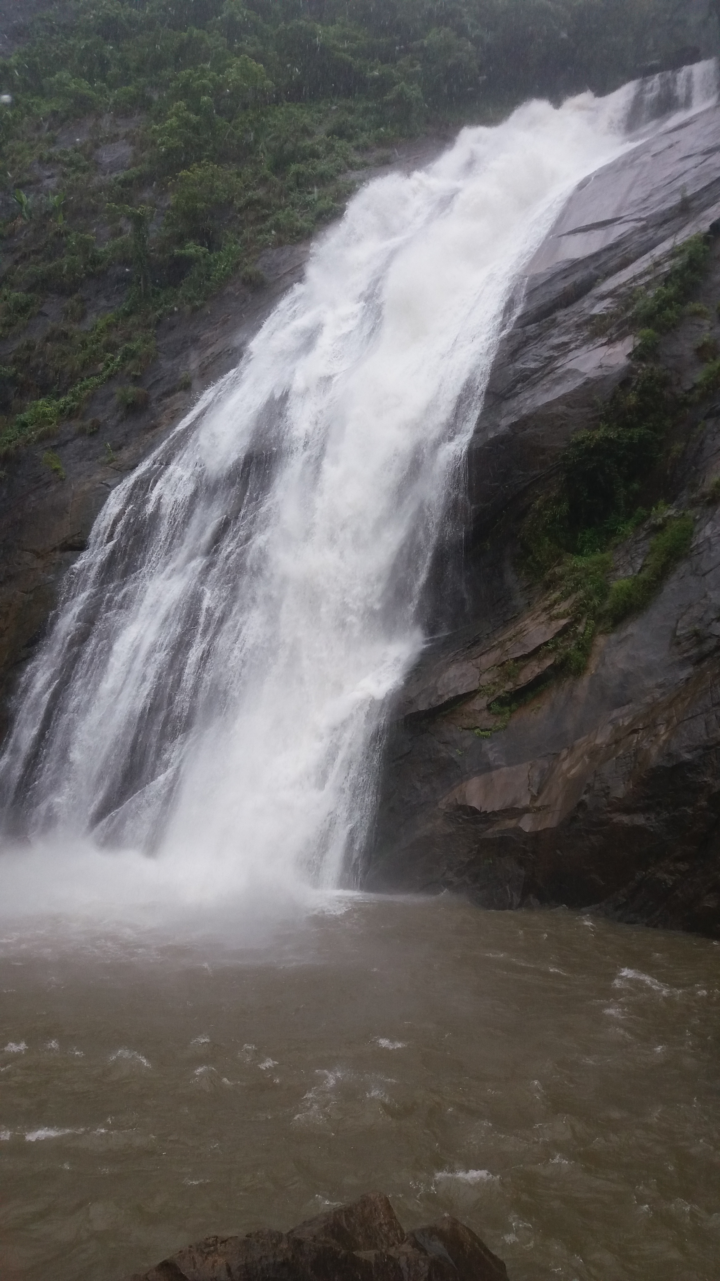 Marmala Waterfall is a small Waterfall near Theekoy part of Kottayam district. For reaching here, a turn should be taken from the vagamon road after Theekoy, where there is a entry board of a temple. The path to this waterfall is steep and tared. There is a distance of around 10 KM from main road to the bottom of water fall. In rainy season only water have high force. Its a good trekking location. People visiting vagamon and illickal kallu should not miss this.